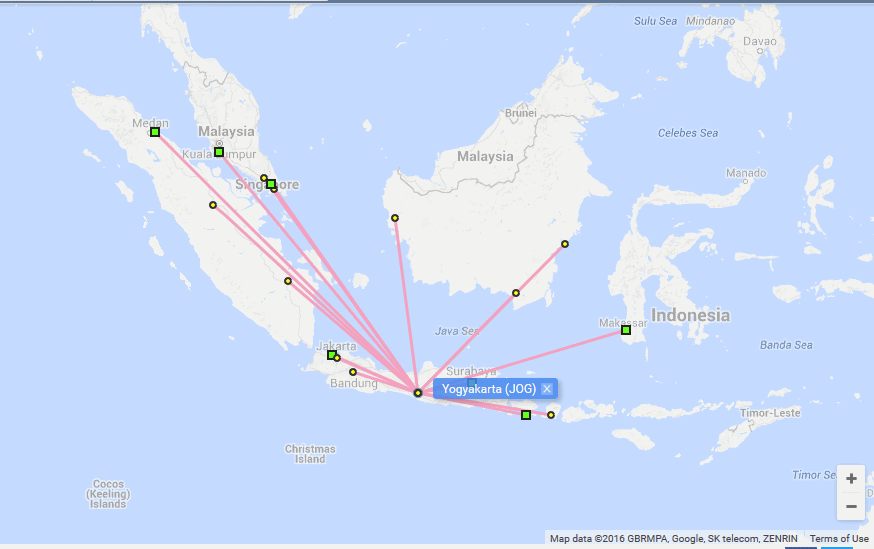 Adisucipto Airport Connectivity Map